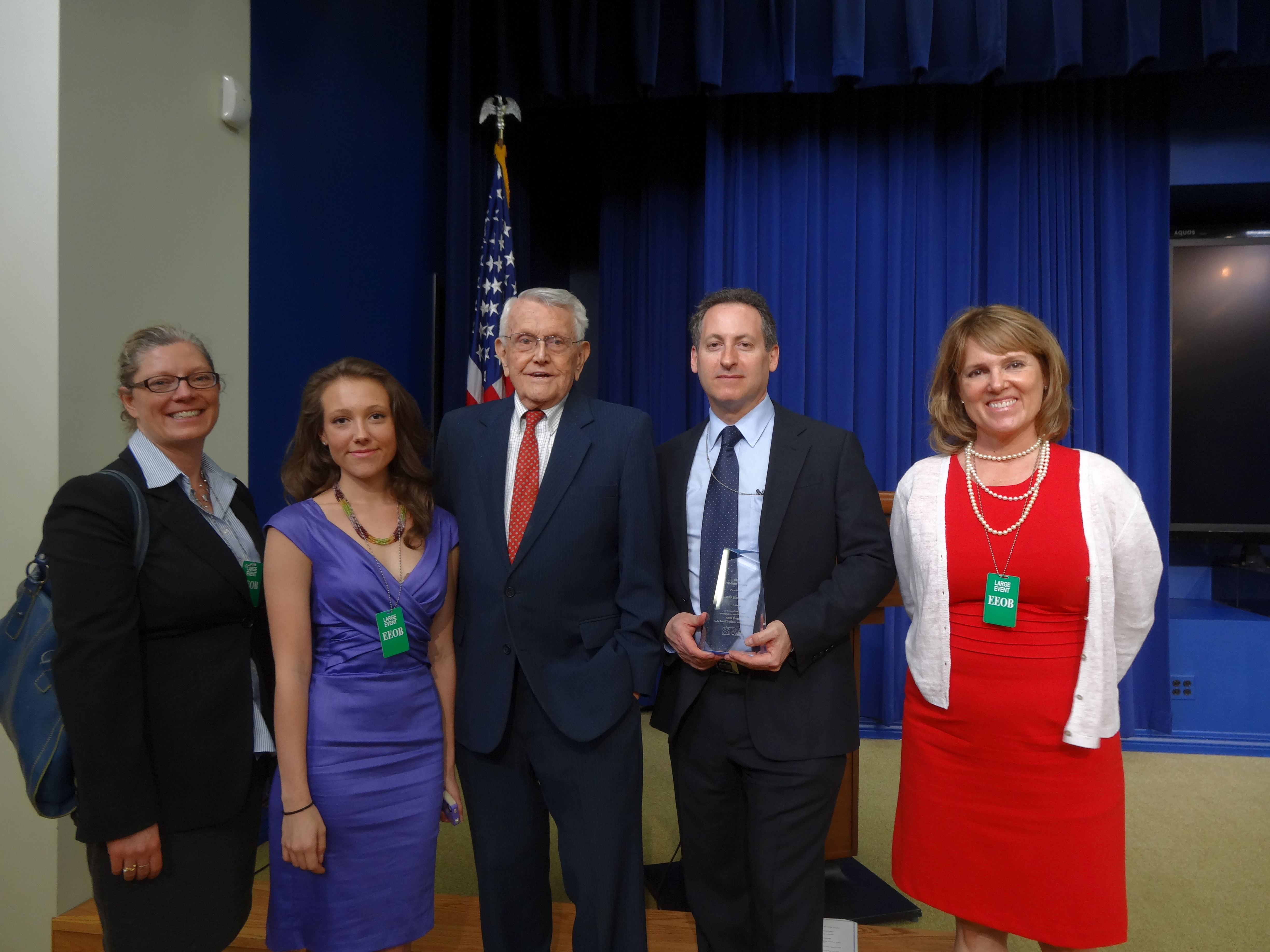 From left to right: Margaret Grabb, Ph.D, NIMH SBIR/STTR Coordinator, Sophie Glaser, Roland Tibbetts, Jack Glaser, Cait Glaser